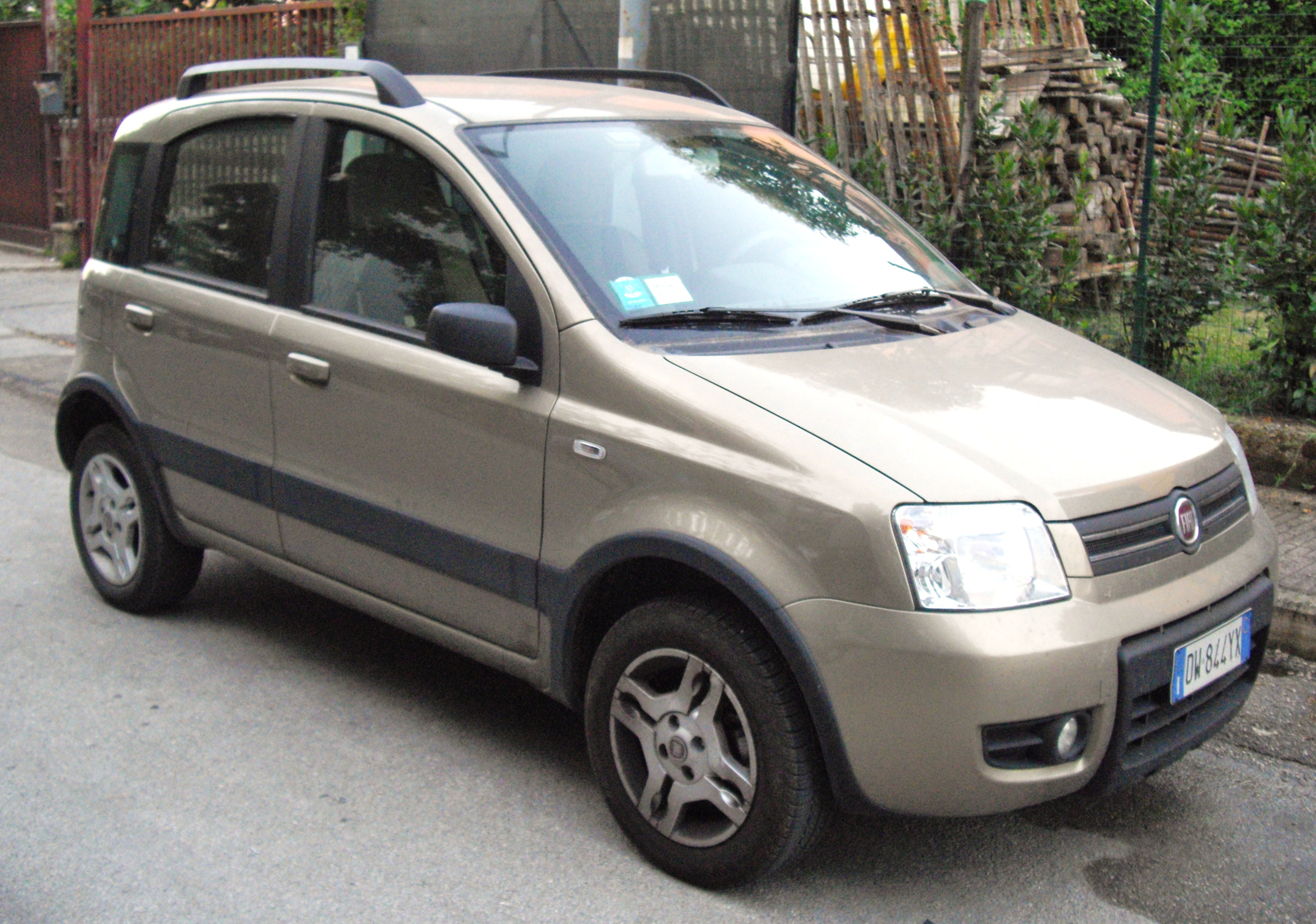 Fiat Panda Panda Natural Power.